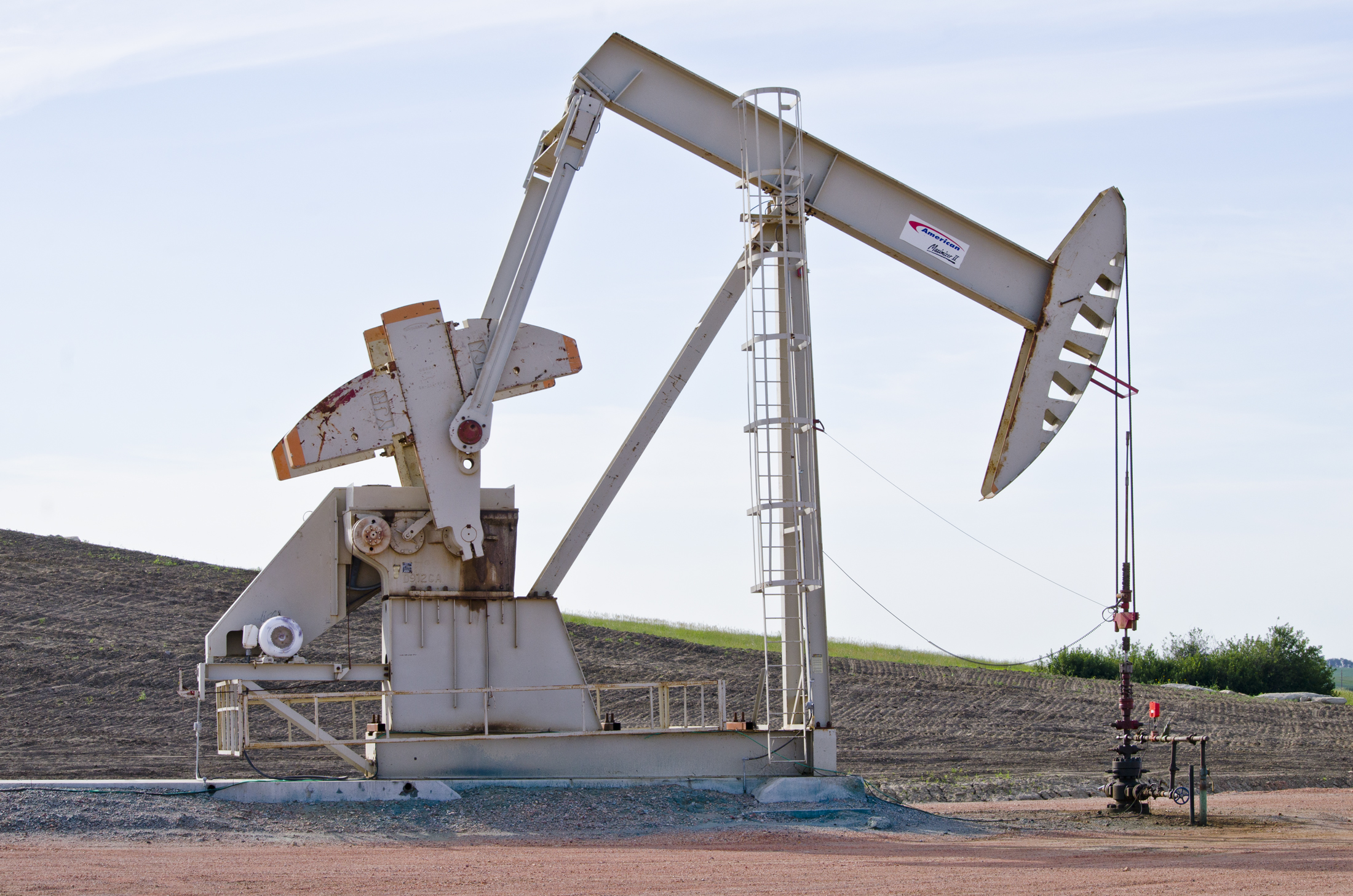 Pumping rig at the Sergeant Major well on the Evanson family farm in McKenzie County, North Dakota, east of Arnegard and west of Watford City. There are few pipelines in McKenzie County, and almost none of the them oil pipelines. Nearly all oil is trucked out, and semi trucks clog the local highways. Oil generally is trucked out only in good weather (most roads are dirt), so rainy or winter months there is little oil moving. In good weather, trucks run about 20 hours a day, and drivers do nothing but take empty trucks out, collect oil, take full trucks to the local processing plant, unload, and repeat. Natural gas is plentiful, and there is no way to get it out. So most of it is flared (burned) off.